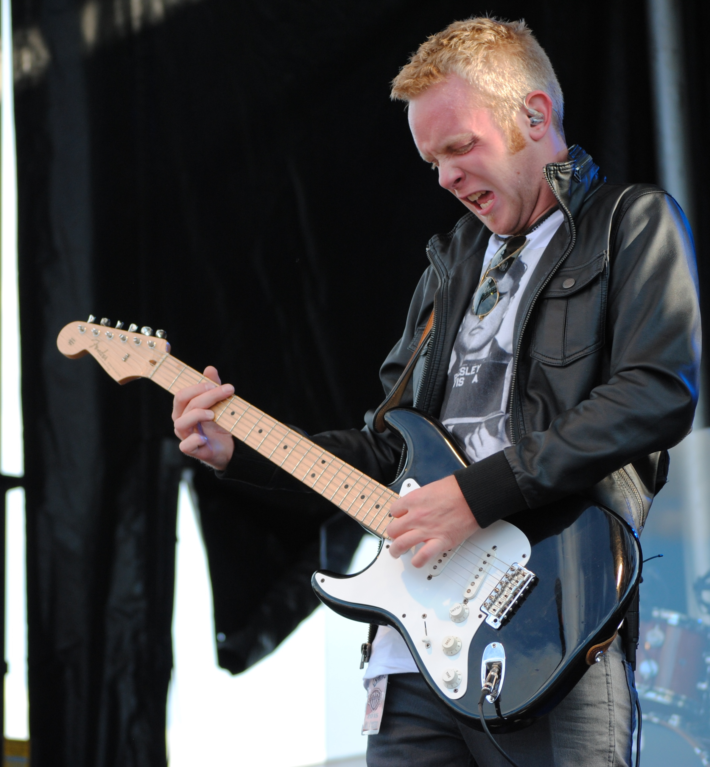 Matthew Curry solo in Buford, GA